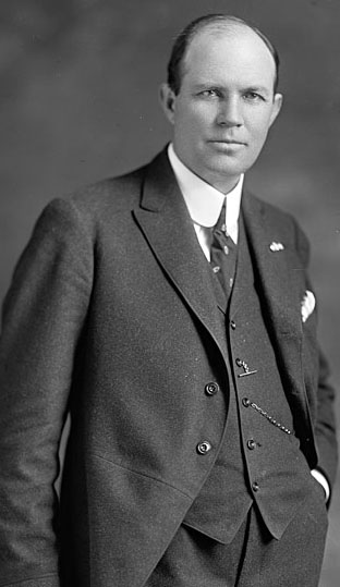 Milton H. Welling, Representative from Utah